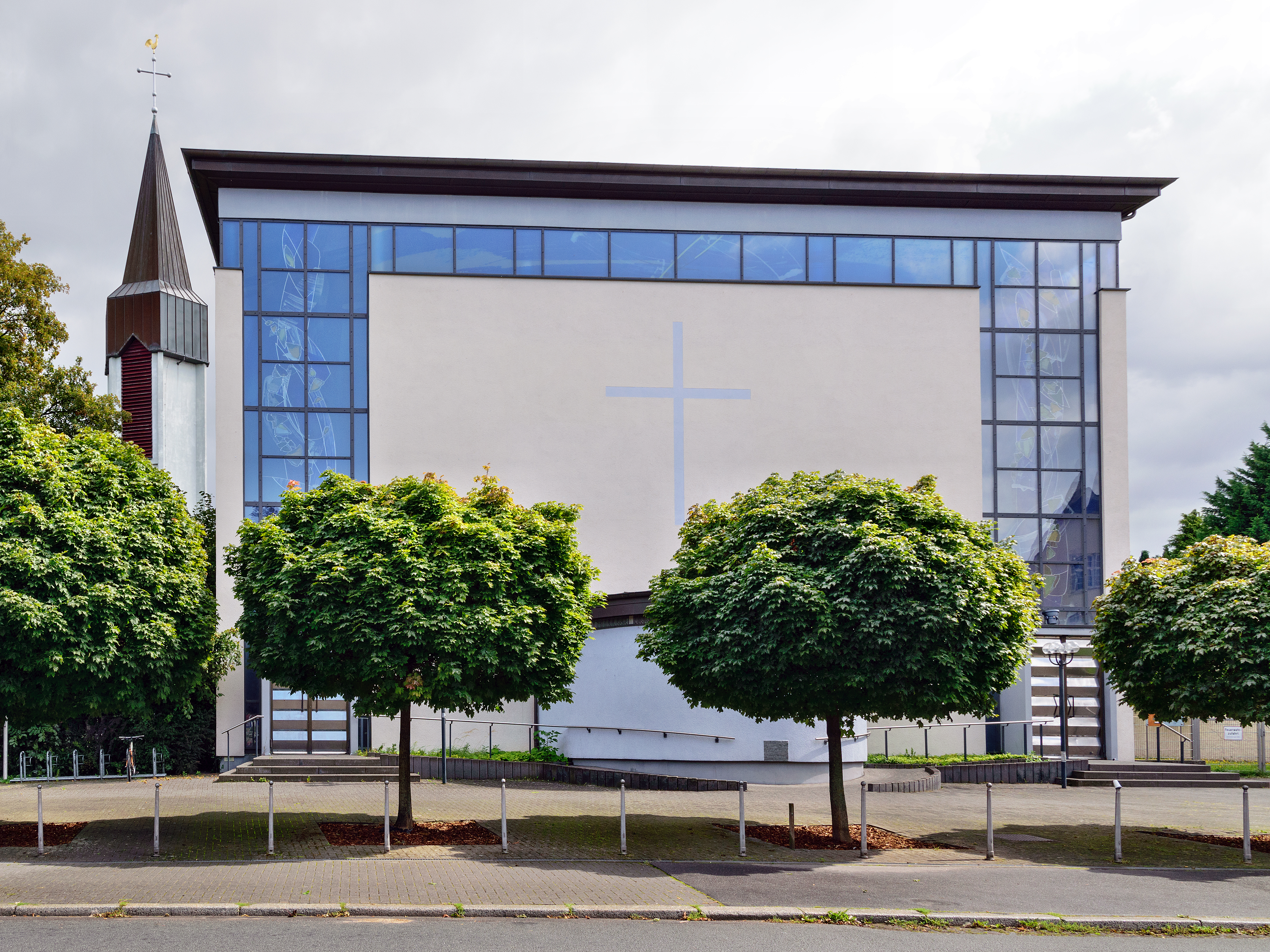 The Holy Spirit Church in Friedberg, Hesse